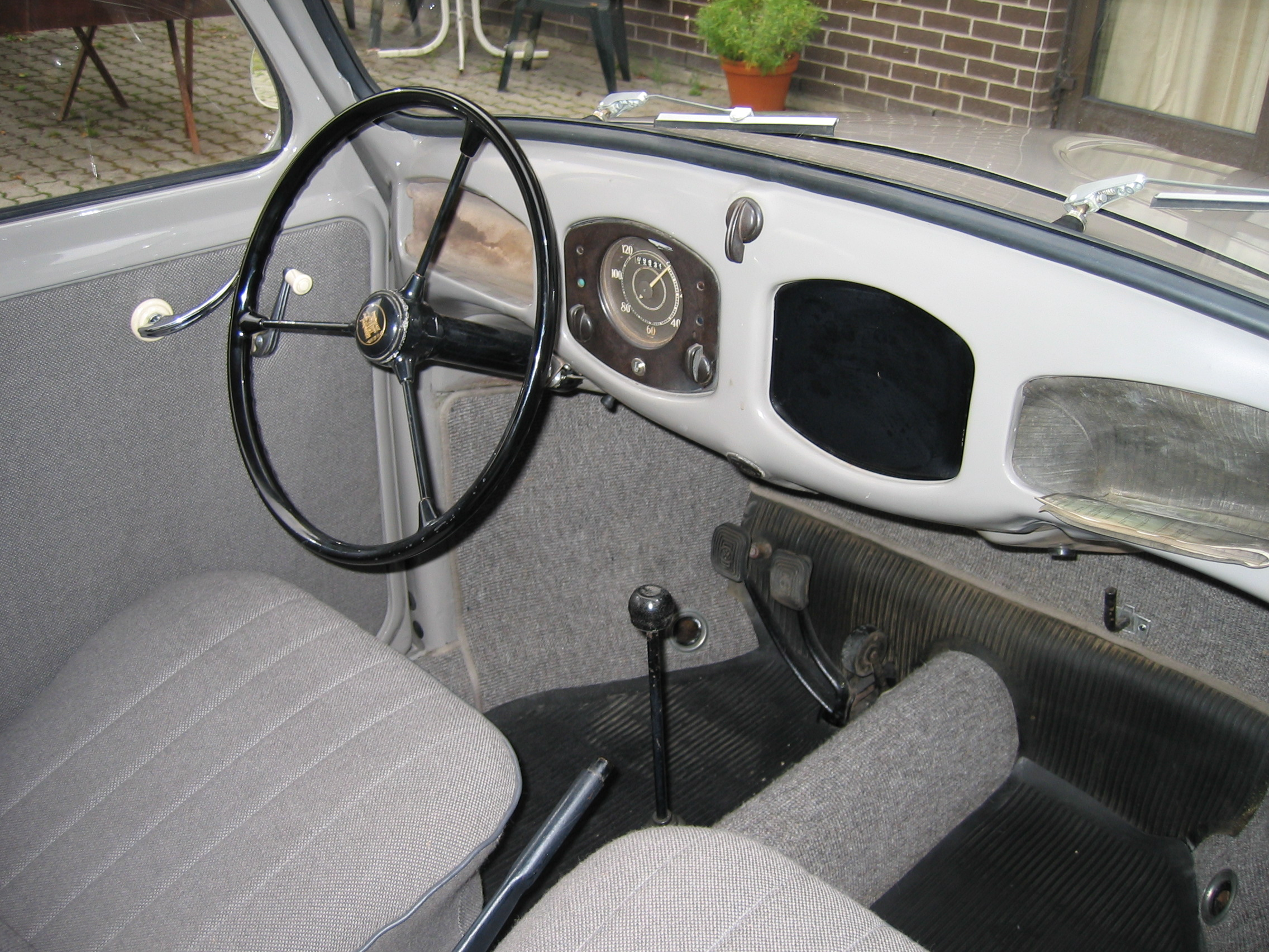 Interior of a 1949 Volkswagen Type 1